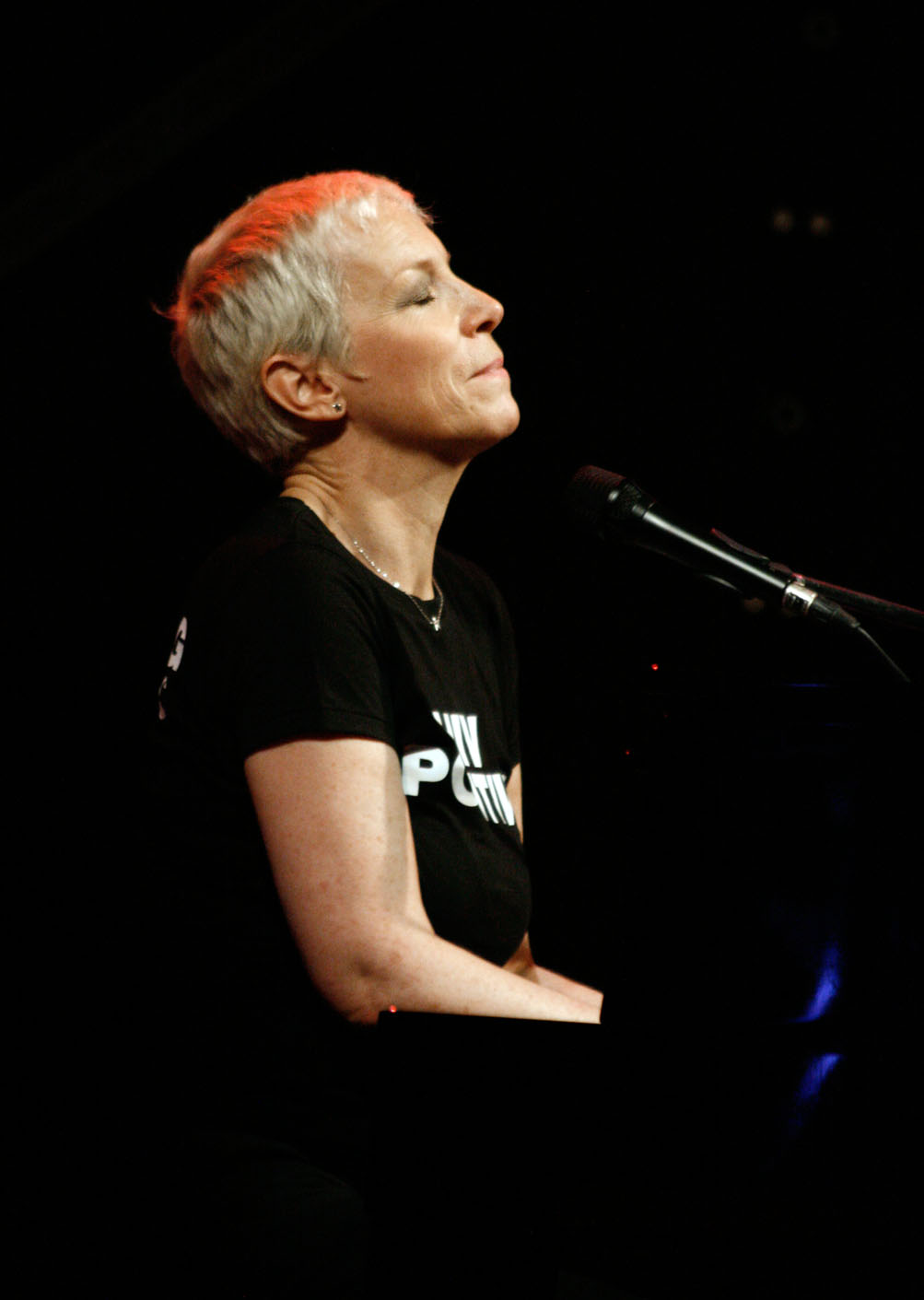 Annie Lennox performing at the Rally For Human Rights during the International AIDS Conference 2010 in Vienna as part of her SING Campaign.